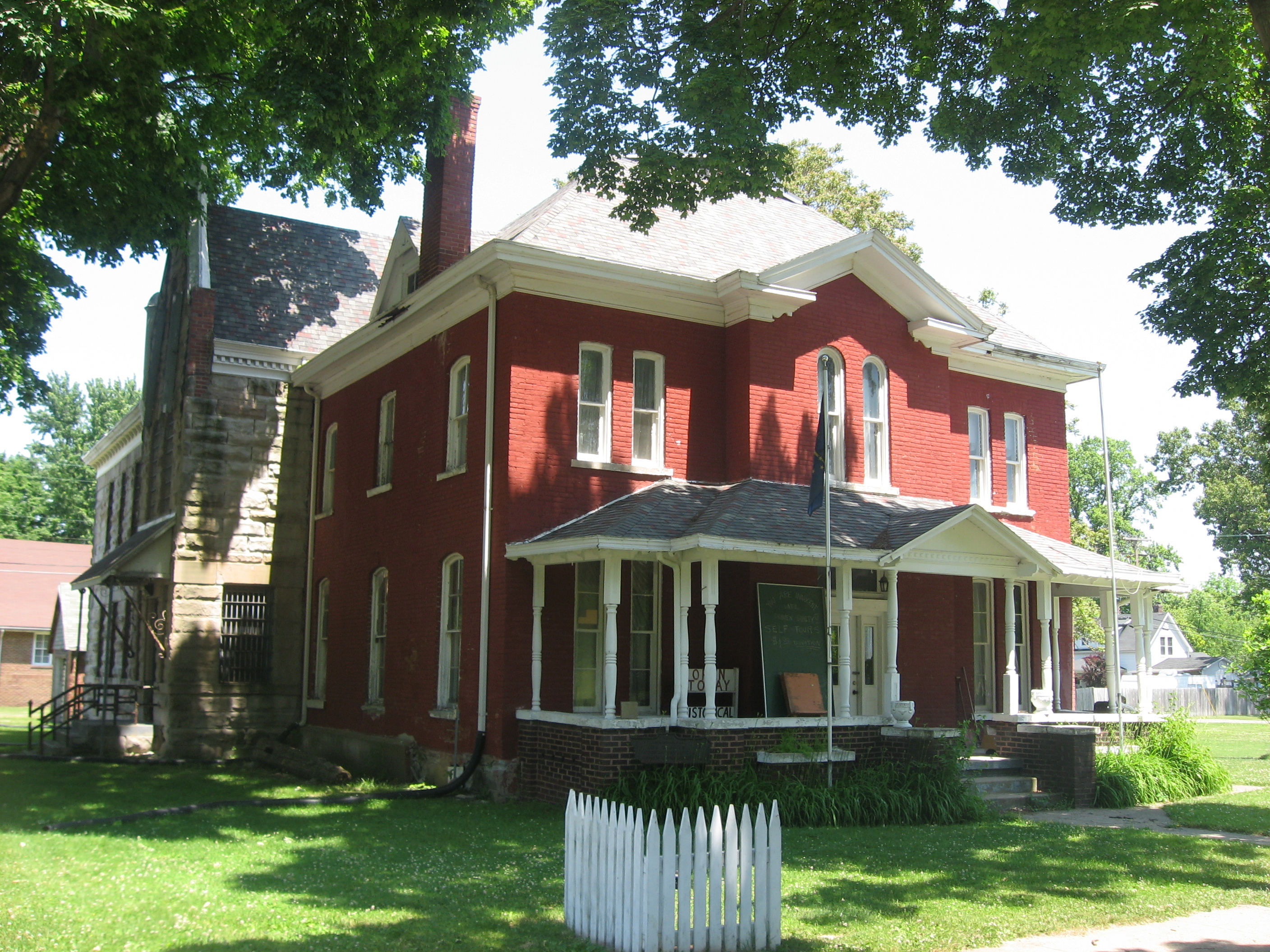 Front and western side of the Vermillion County Jail and Sheriff's Residence, located at 220 E. Market Street in Newport, Indiana, United States. Built in 1868 and now the Vermillion County Historical Society's museum, it is listed on the National Register of Historic Places.